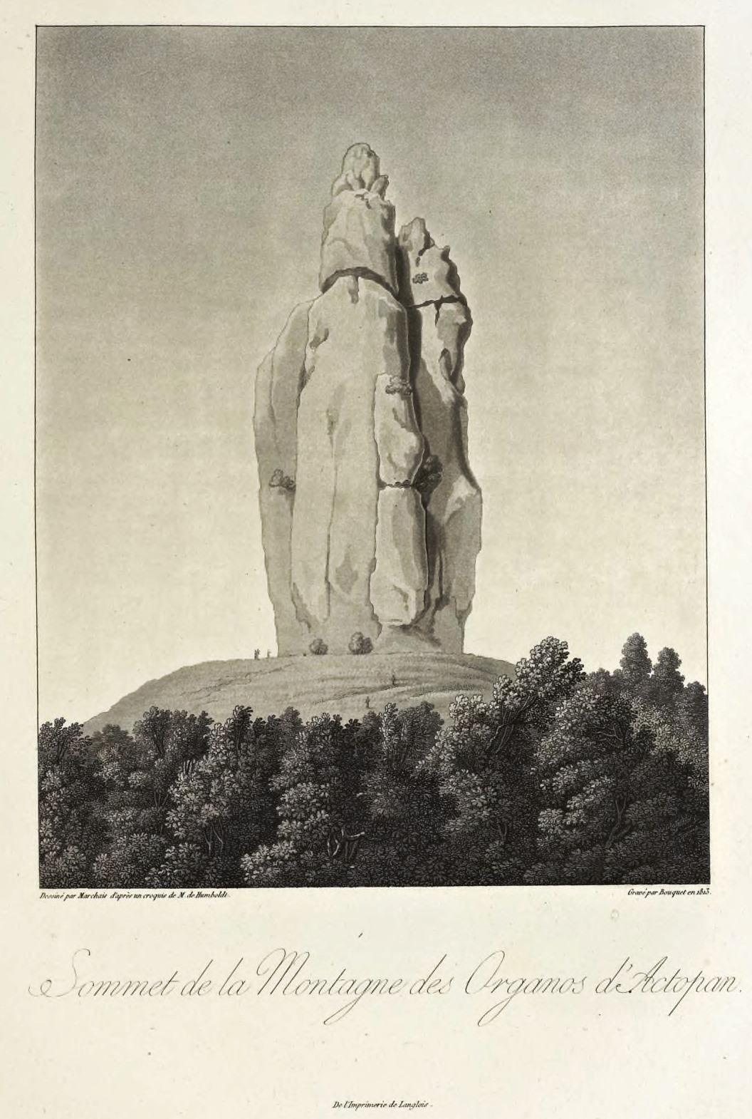 Title: Vues des Cordillères, et monumens des peuples indigènes de l'Amérique Year: 1813 (1810s) Authors: Humboldt, Alexander von, 1769-1859 Schoell, Frédéric, 1766-1833, publisher Stone, John Hurford, 1763-1818, printer Bouquet, Louis, 1765-1814, engraver Gmelin, Wilhelm Friedrich, 1760-1820, engraver Humboldt, Alexander von, 1769-1859. Voyage aux régions équinoxiales du nouveau continent Subjects: Indians of Mexico Indians of South America Montañas Montañas Indios Publisher: A Paris : Chez F. Schoell, rue des Fossés-Saint-Germain-l'Auxerrois, no. 29 Text Appearing Before Image: en dActopan. Lapartie élancée du rocher a cent mètres de hauteur; mais lélévation absoluedu sommet de la montagne, là où les Organos commencent à se détacher,est de i585 toises. Cest dans le chemin de Mexico aux mines de Guanaxuatotjuon distingue de très-loin, et se détachant sur Thoiizon, le rocher deMamanchota : il sélève au milieu dune forêt de chênes^, et oflVe un aspecttrès-pit tores c;ue. PLANCHE LXV. Montagjies de porphyre colonnaire du Jacal. Cette vue a été prise dans la plaine de Copallinchîche qui fait partie dugrand plateau mexicain, et qui est élevée de treize cents toises (253o mètres)au-dessus du niveau de lOcéan. Les montagnes de fOyamel et du Jacal,composées dénormes colonnes de porphyre trapéen, sont couronnées de pins etde chênes. Cest entre la métairie du Zembo et le village iirdien dOmillan que Bombax et Oclironia. Fajage hislorù/ue de LAmérique Méridionale, Tom. i, pag. 168. Essai poUliqtie sur la NouvclU-Espagne, Tom. 1, pag. 289. Text Appearing After Image: '